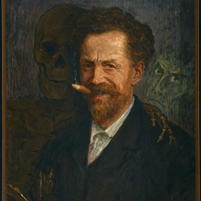 Self-portrait 1904